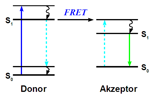 Simplyfied Jablonski energy diagram for a Förster resonance energy transfer. Blue: donor excitation Green: aceptor emission Black: radiation-free